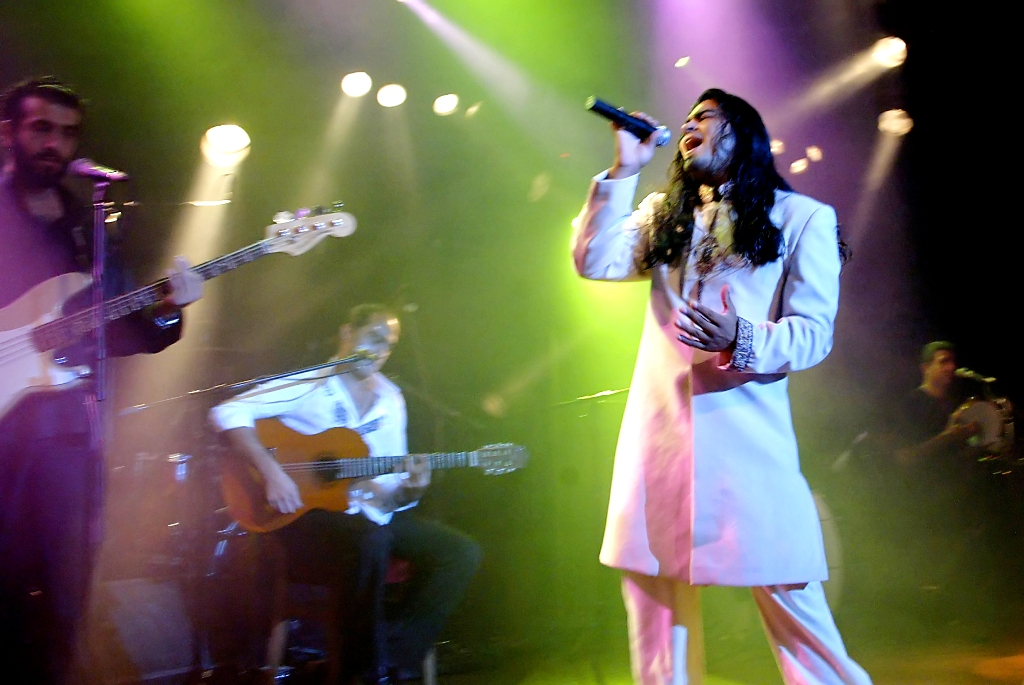 Bilal (Lebanese singer) on stage